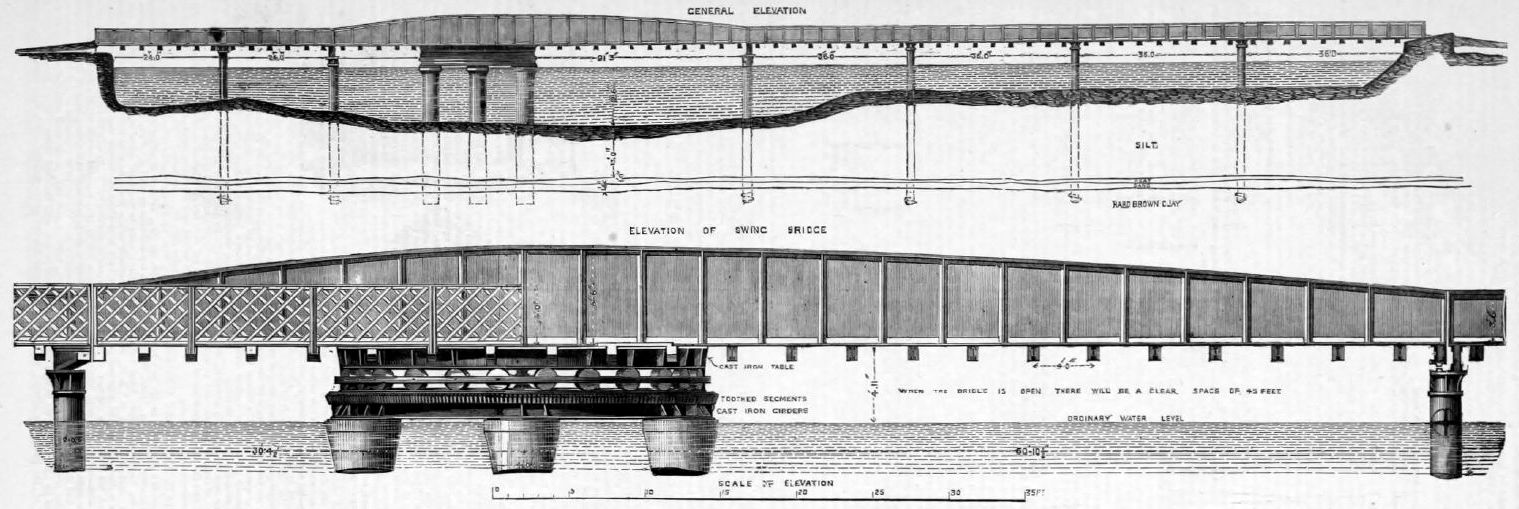 Diagram image of swing bridge over Grimsby Old dock from source: “Swing Bridge at Great Grimsby”, in The Engineer[1], volume 31, 14 April 1871, pages 247; illus. p.248